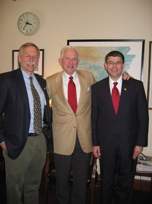 Frank Broyles (center) meets with Congressmen Vic Snyder (left) and Mike Ross (right) in Snyder’s Washington office in May of 2005.